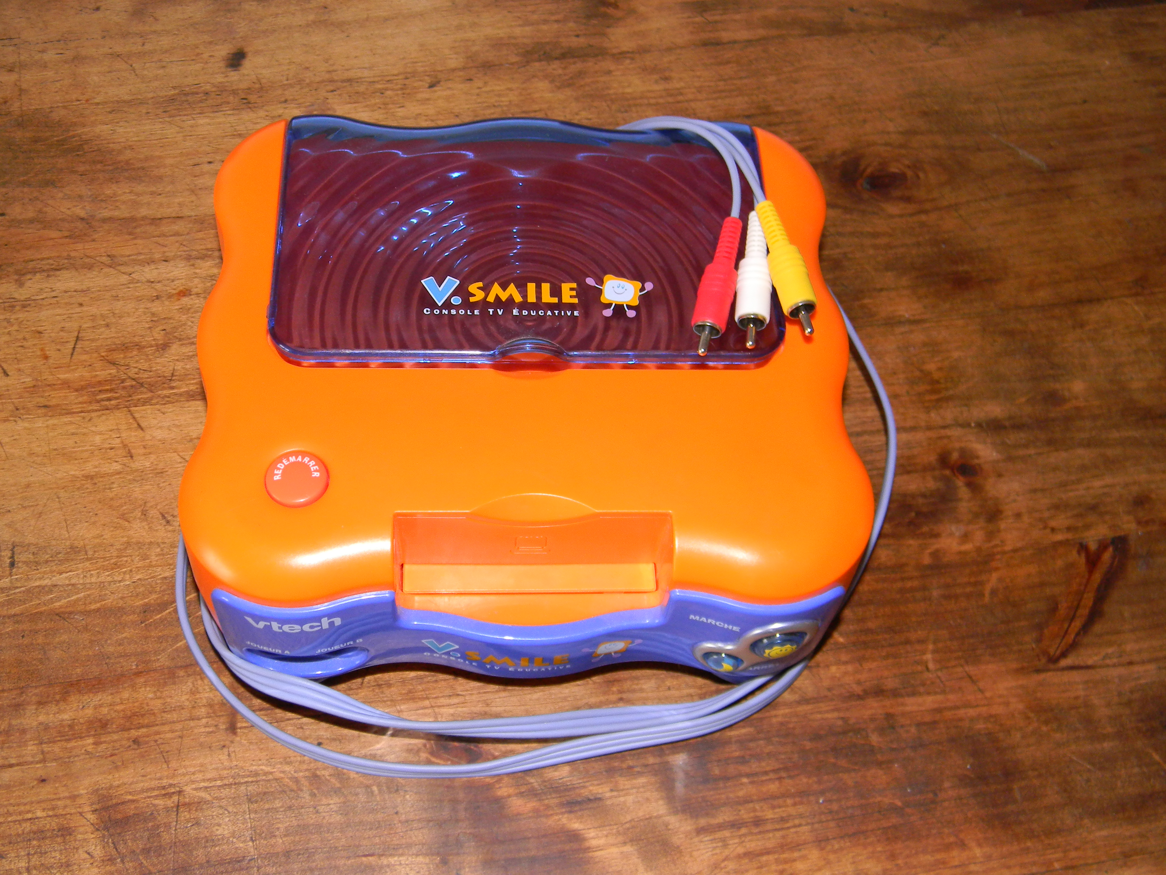 The french version of the Vtech V.Smile console.